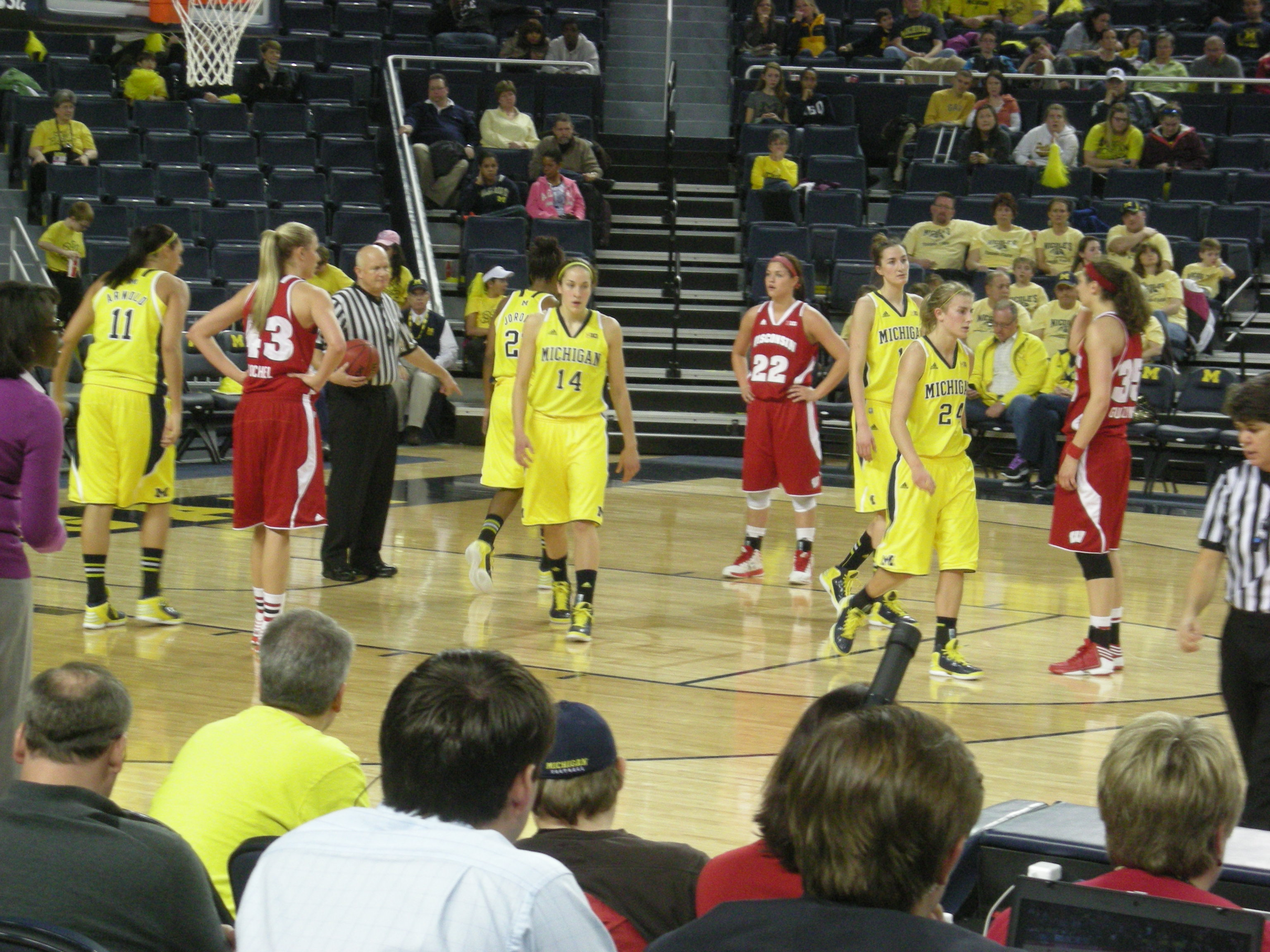 Second-half action during the Wisconsin Badgers vs. Michigan Wolverines women's basketball game at Crisler Center in Ann Arbor, Michigan (United States). Michigan won 54–43.